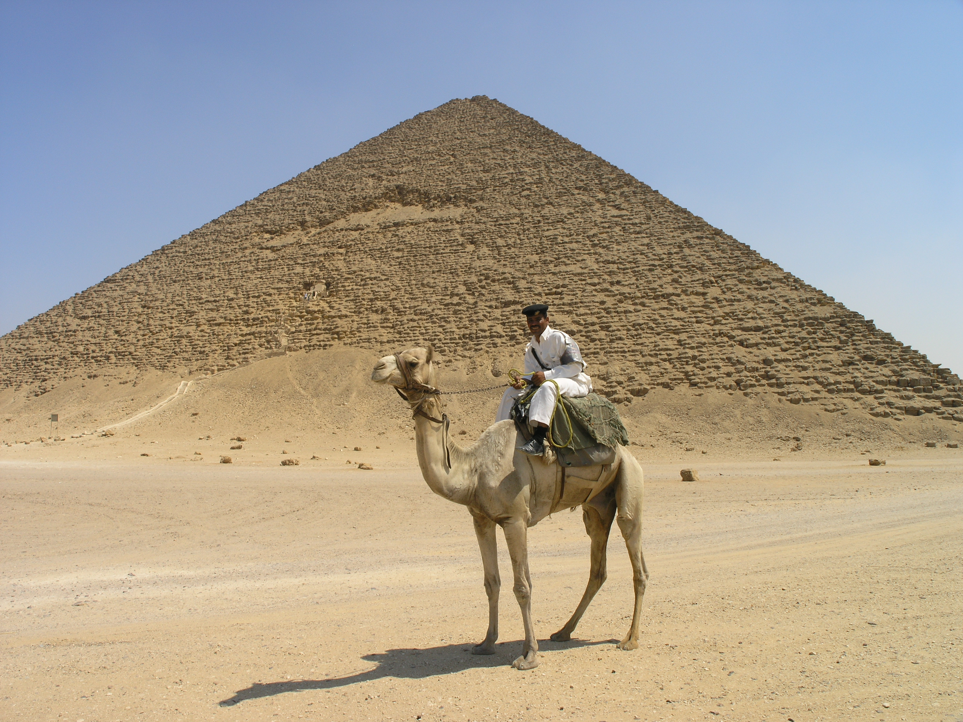 Dahshur - Red Pyramid - Tourist policemen on camel